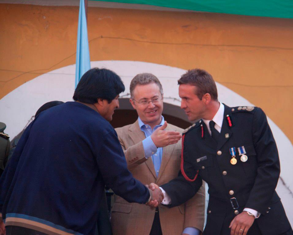 Jefe de bomberos Chris Gannon y Presidente Evo Morales